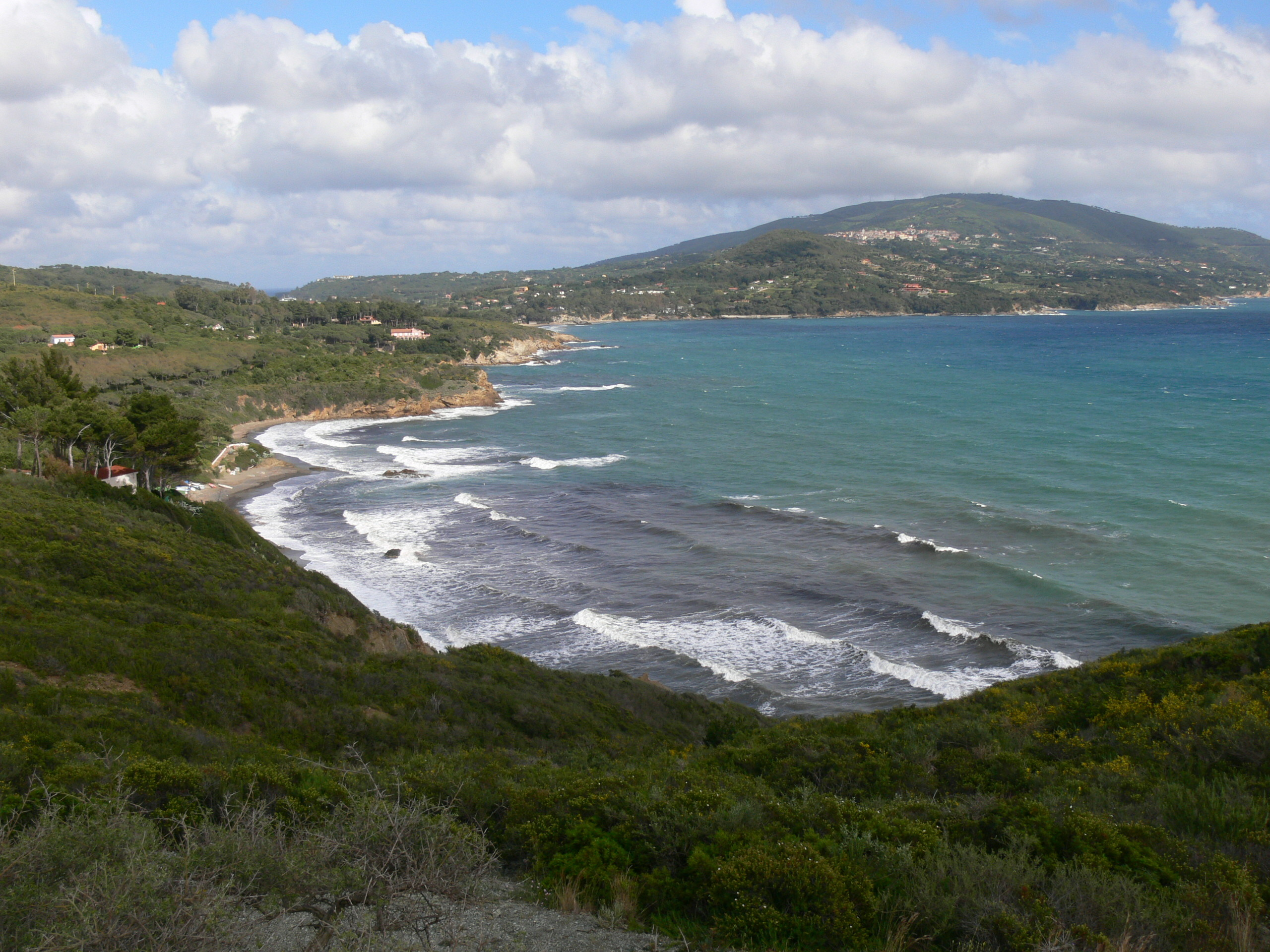 Elba. Golfo Stella in the south of the island